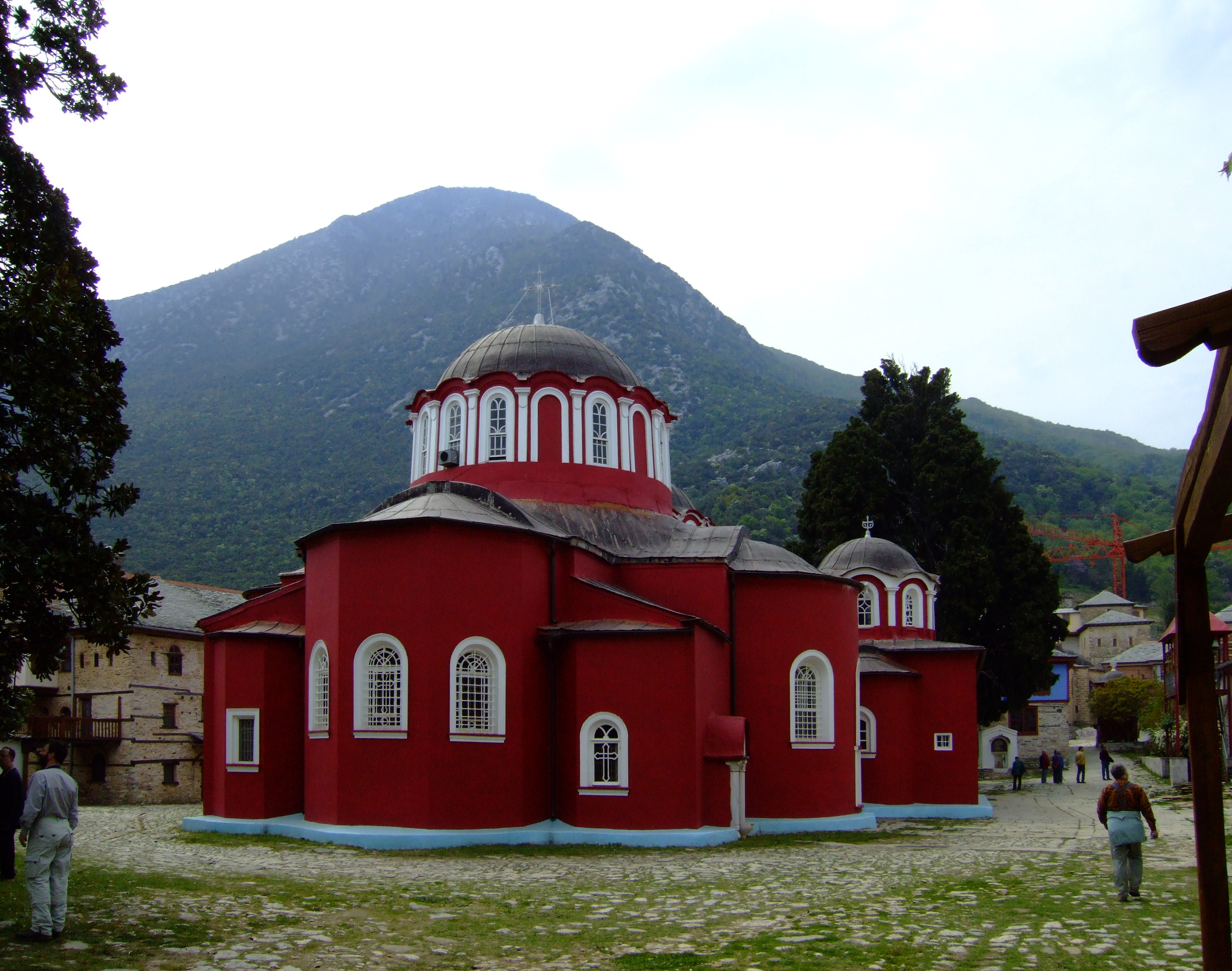 The main church (katholikon) of Great Lavra at Mount Athos.